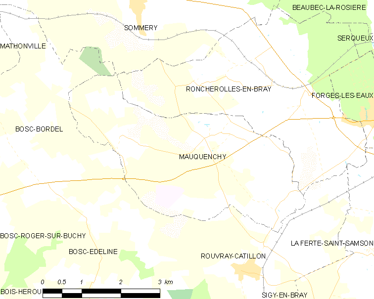 Map of French municipality Mauquenchy